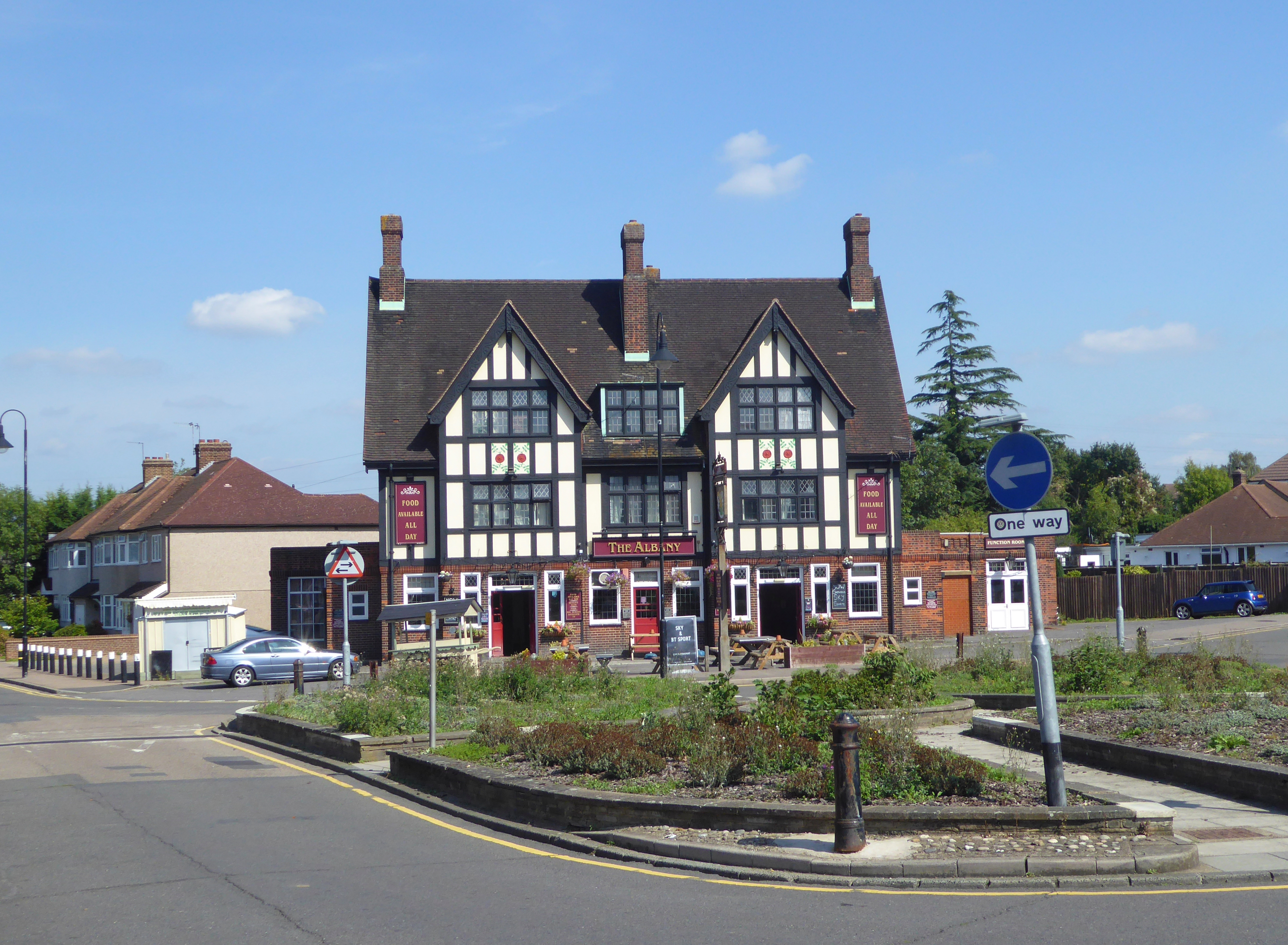 The Albany, a 1930s mock-Tudor style pub in Albany Park, southeast London.